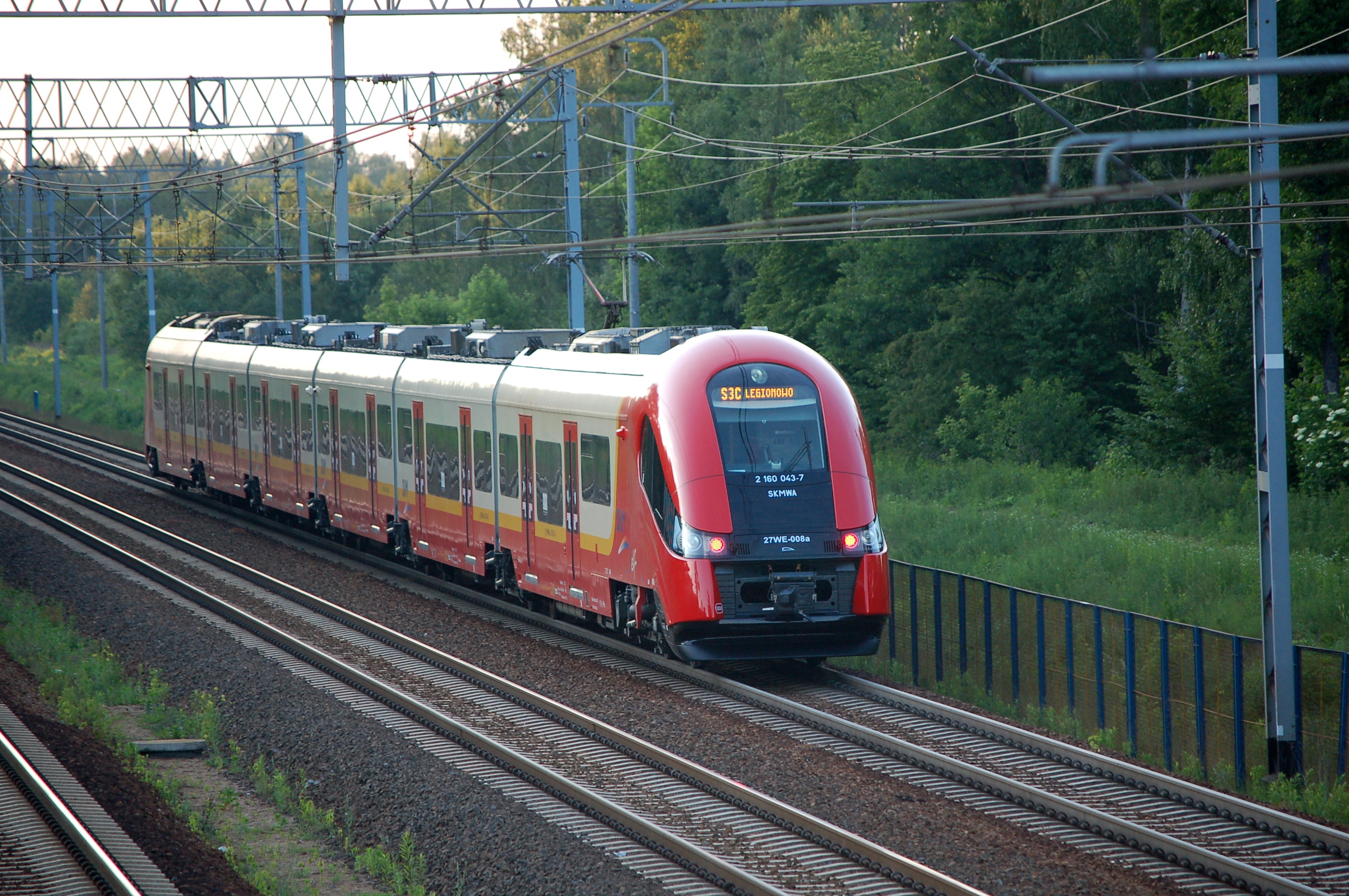 S3C line servicing by SMK 27WE heading towards Legionowo